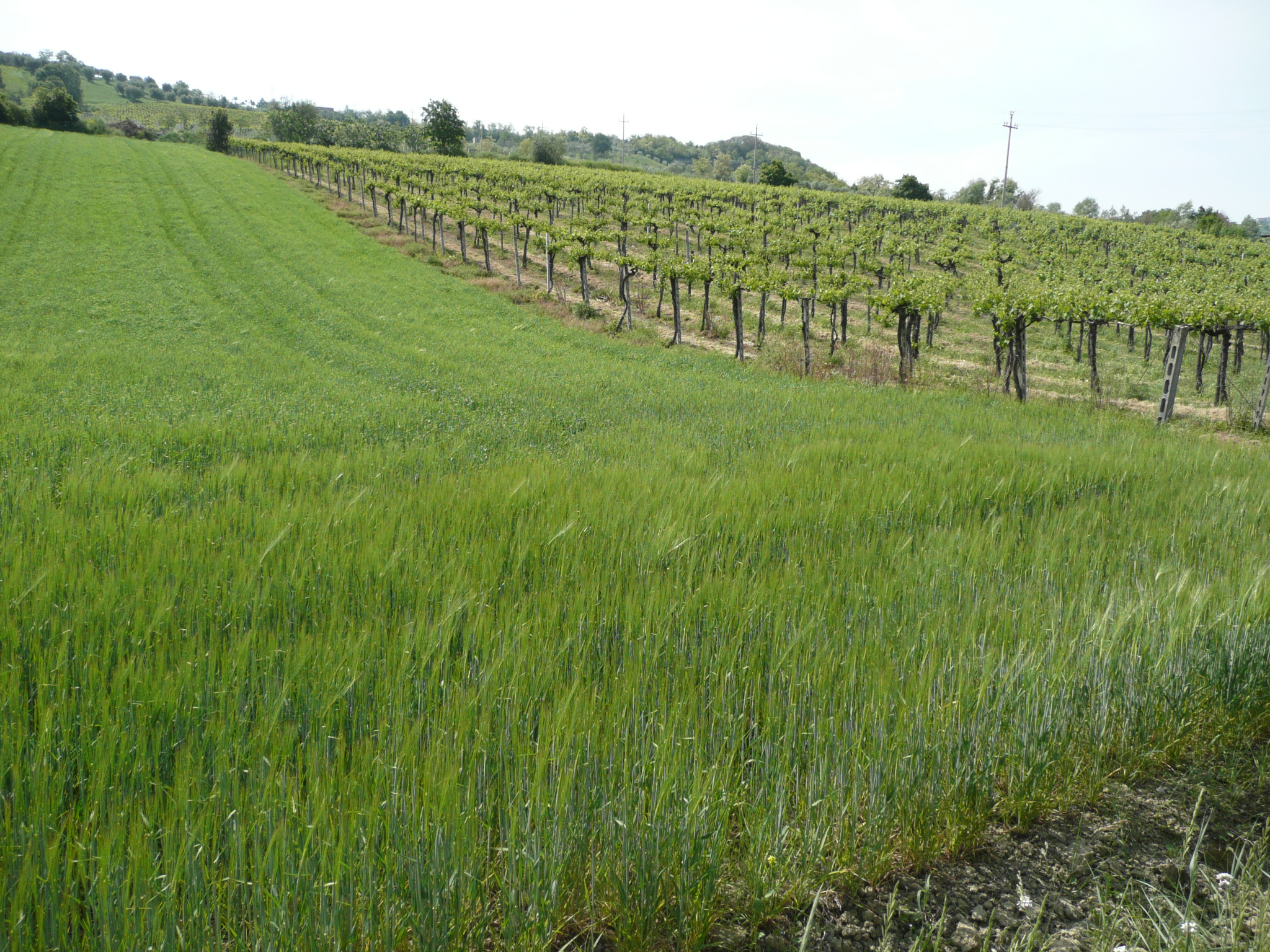 Vineyard in the Italian wine region of Abruzzo in the Controguerra DOC